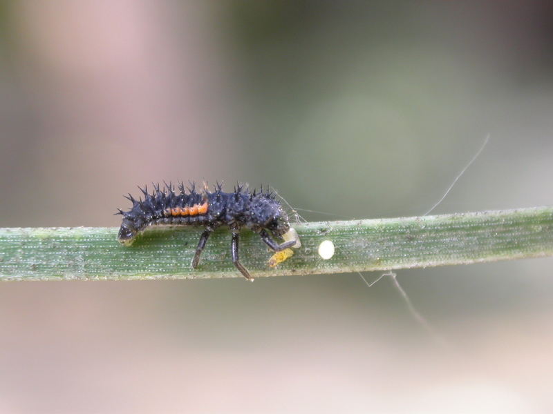 3rd instar larvae of Harmonia axyridis eating an egg of an other ladybird species (probably an Adalia)